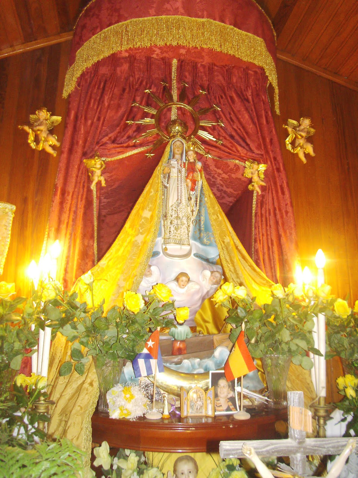 ERMITA DE LA CARIDAD DEL COBRE-TENERIFE, ISLAS CANARIAS